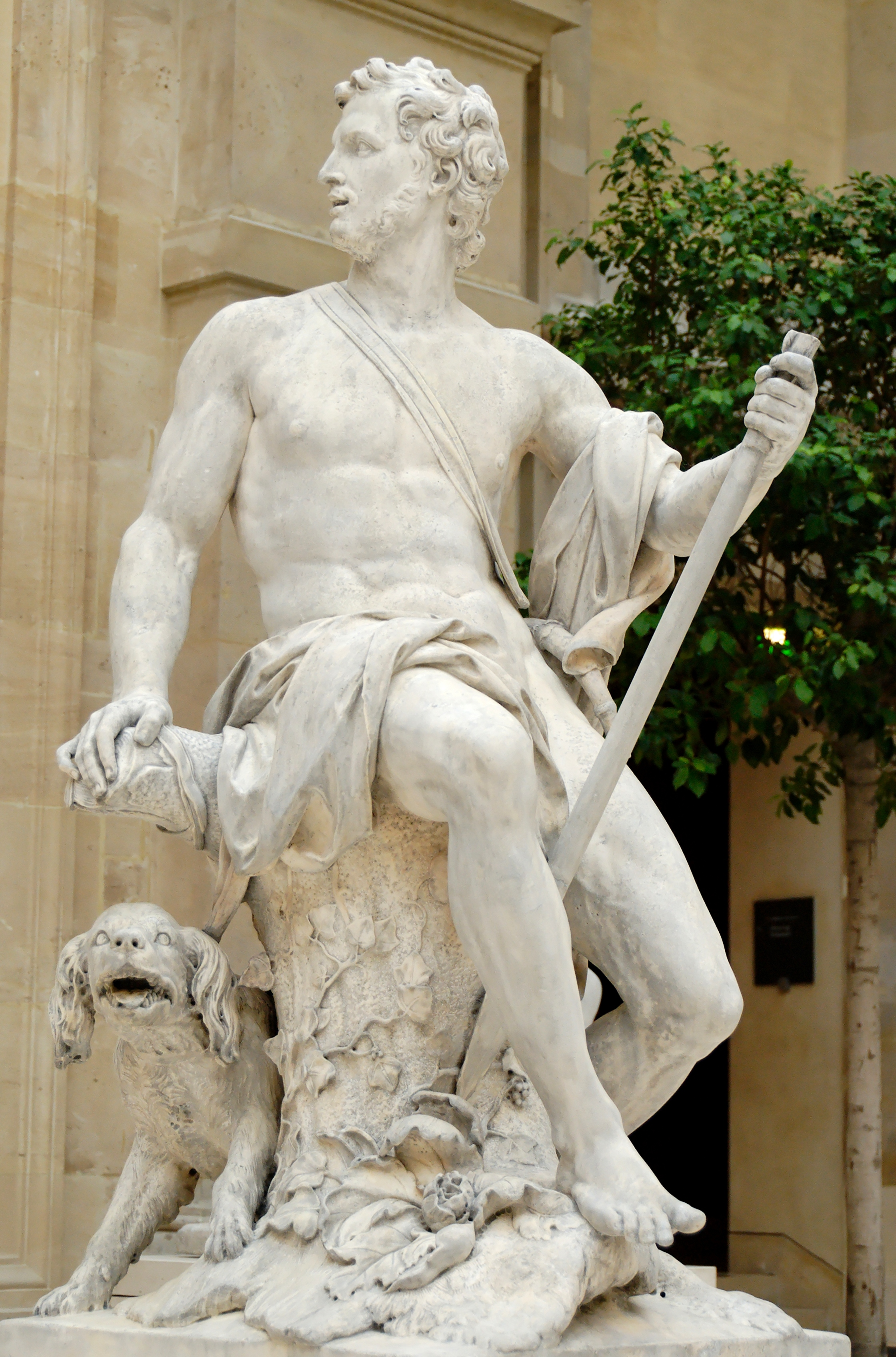 Resting hunter. Marble, 1710. Commissioned in 1707 for the decoration of the park of Marly, transferred in 1716 to the Tuileries Gardens.